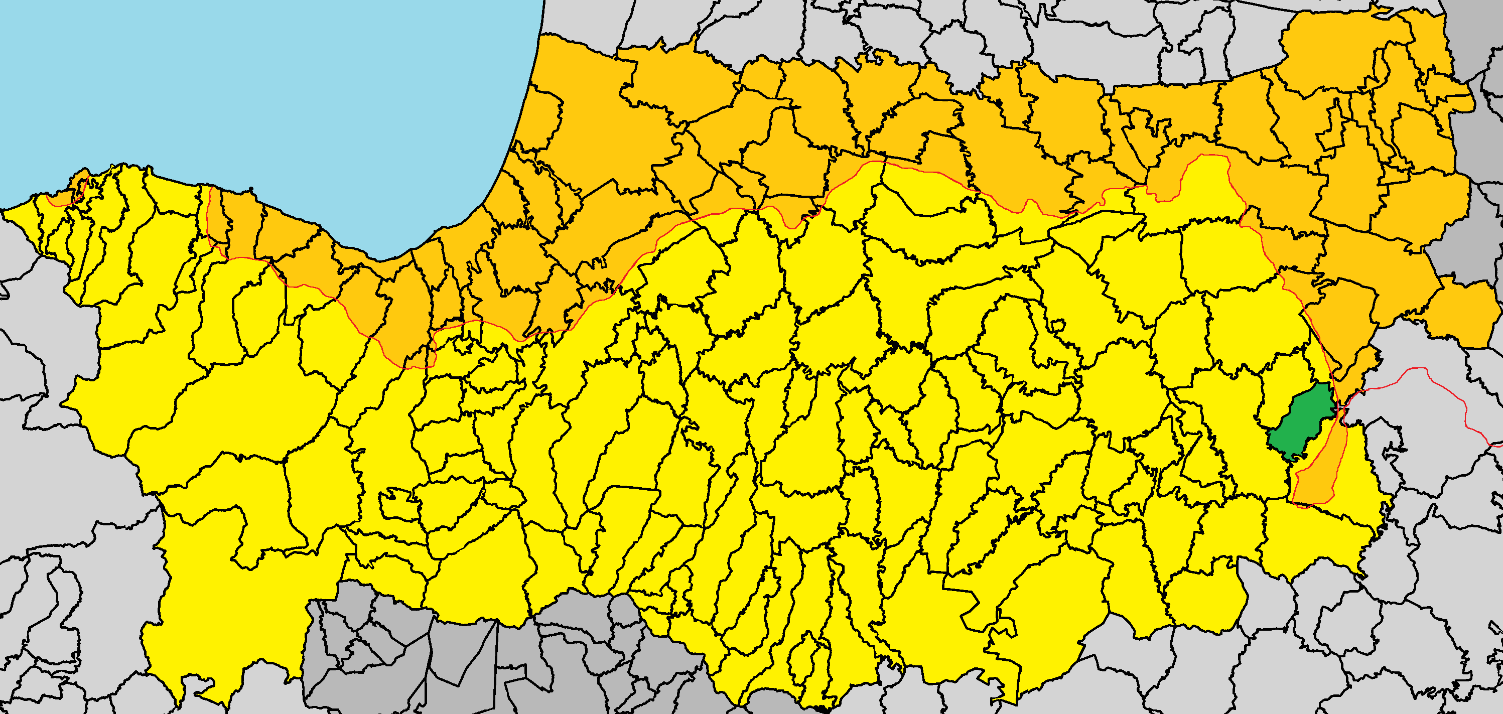 Potamia in Nicosia District.